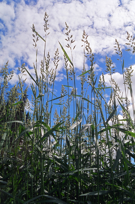 Brome (Bromus inermis) is a commanding broad-leaved grass, growing to nearly two metres in height. Its seed heads are made up of a dozen or so parts, each about a centimetre in length.